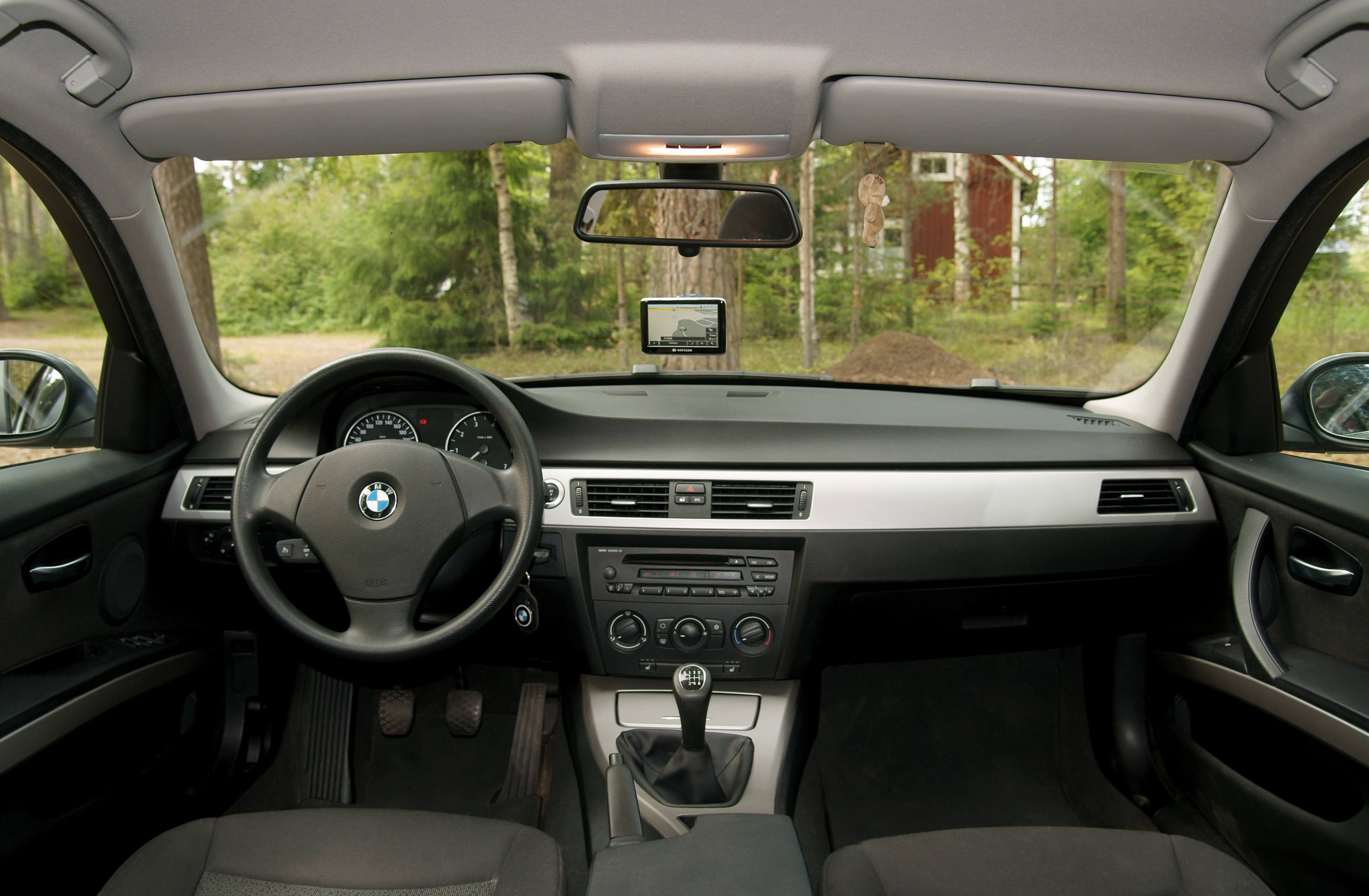 BMW E90 from inside.